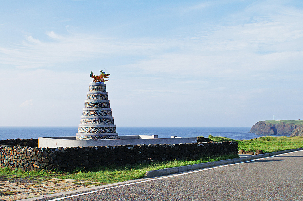 Shigandang on Cimei Island, Penghu